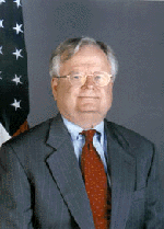 This photo of Robert Blackwill is from the US Department of State web site at and as such is in public domain.